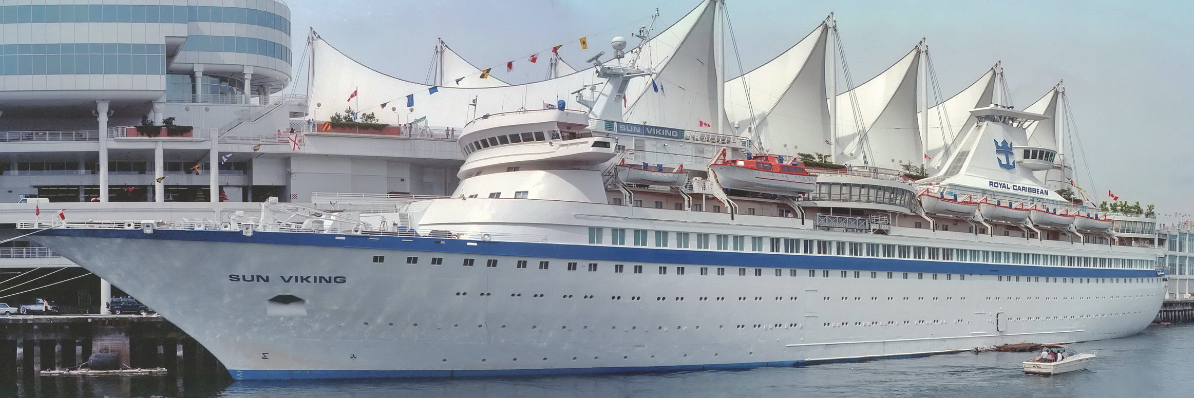 MS Sun Viking (Royal Caribbean International - IMO 7125861) Canada Place, Vancouver - c1990